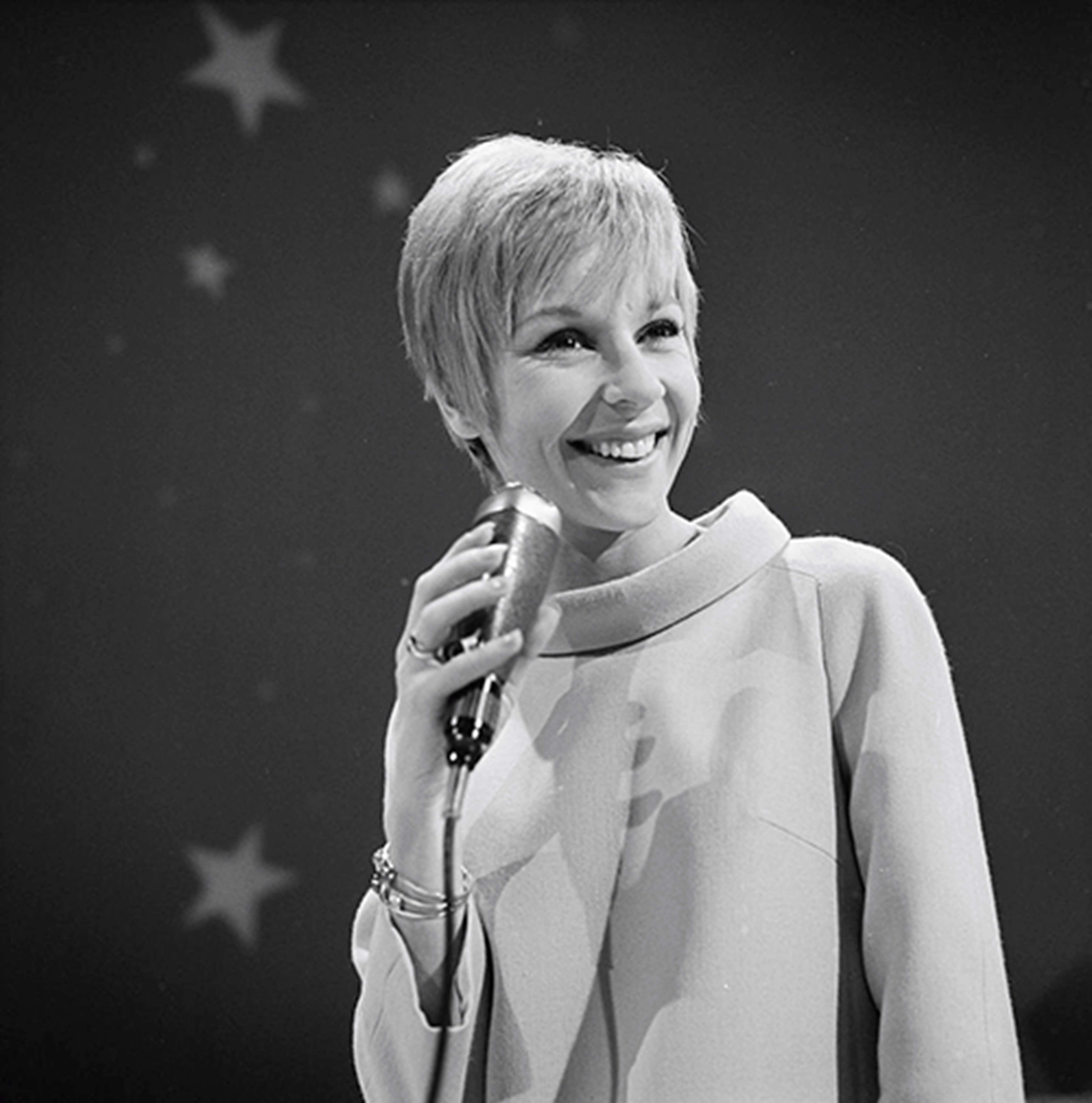 French singer Noëlle Cordier singing " Il doit faire beau la-bas" and "Cheese", Dutch TV programme Fanclub (29 April 1967)